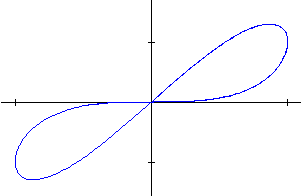 Exhibits a pinched hysteresis effect associated with memristors and memristive systems